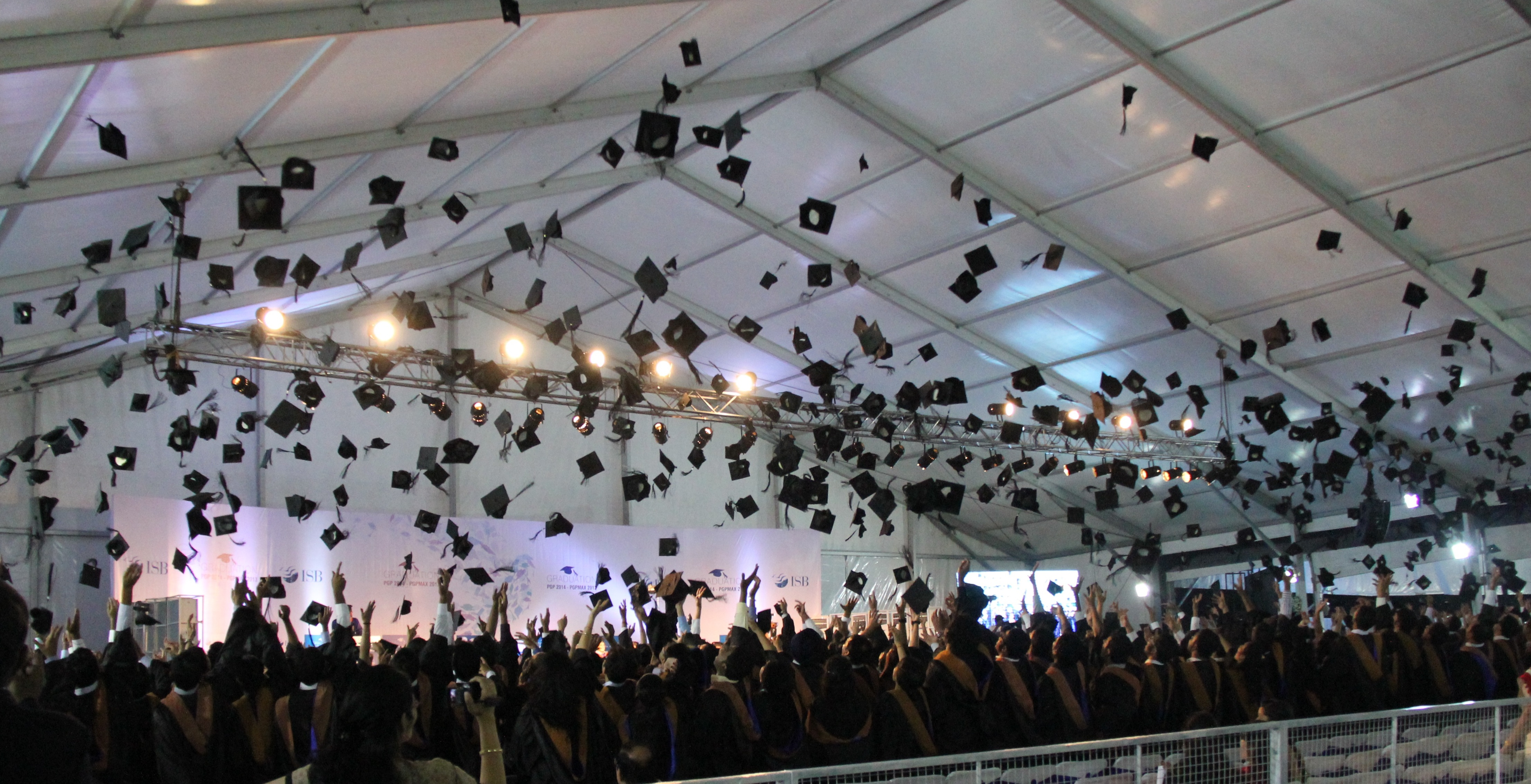 Square academic cap, (graduation hats) being tossed in air by fresh graduates in ISB business school in Hyderabad, India.